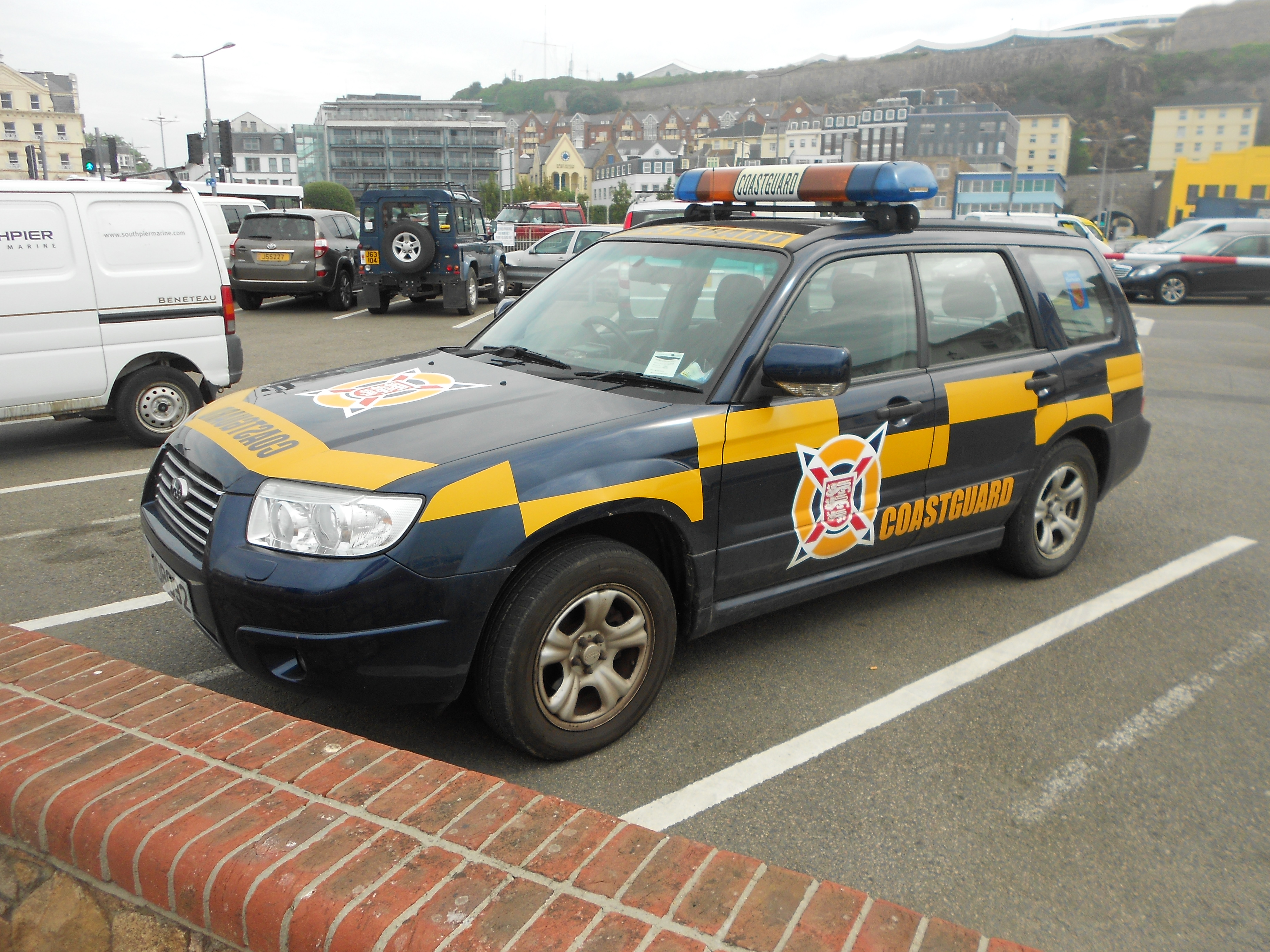 Jersey Coastguard emergency response vehicle.